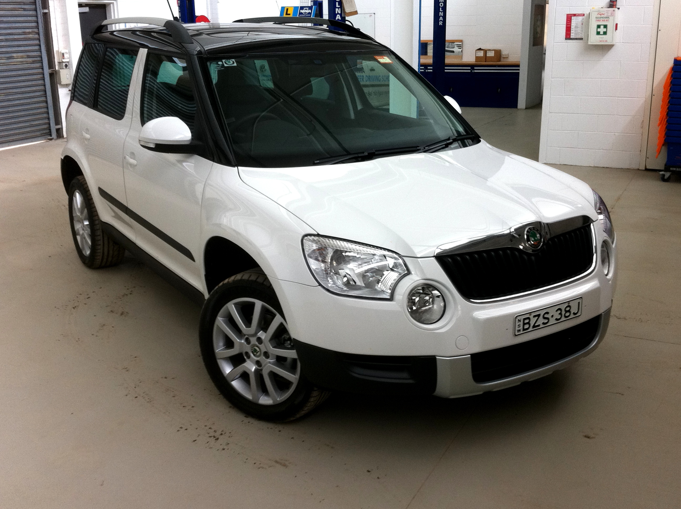 2011 Škoda Yeti (5L) 103TDI wagon, photographed in New South Wales, Australia.